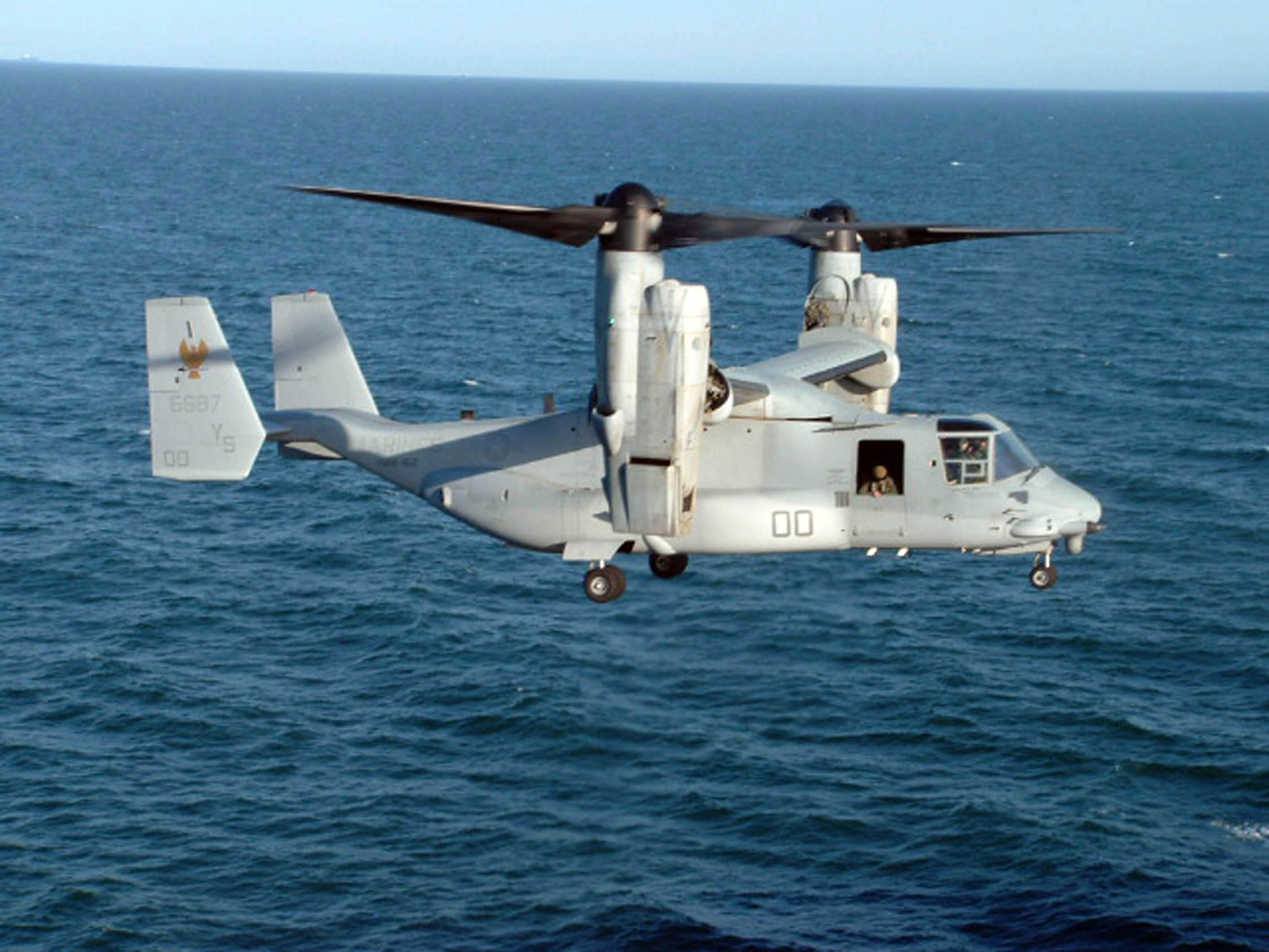 ATLANTIC OCEAN (Feb. 20, 2008) A Marine Corps MV-22 Osprey prepares to land aboard the amphibious assault ship USS Nassau (LHA 4). The Nassau Strike Group is en route to the Navy's 5th and 6th Fleet areas of responsibility in support of maritime security operations. U.S. Navy photo by Lt. j.g. Anthony Falvo (Released)